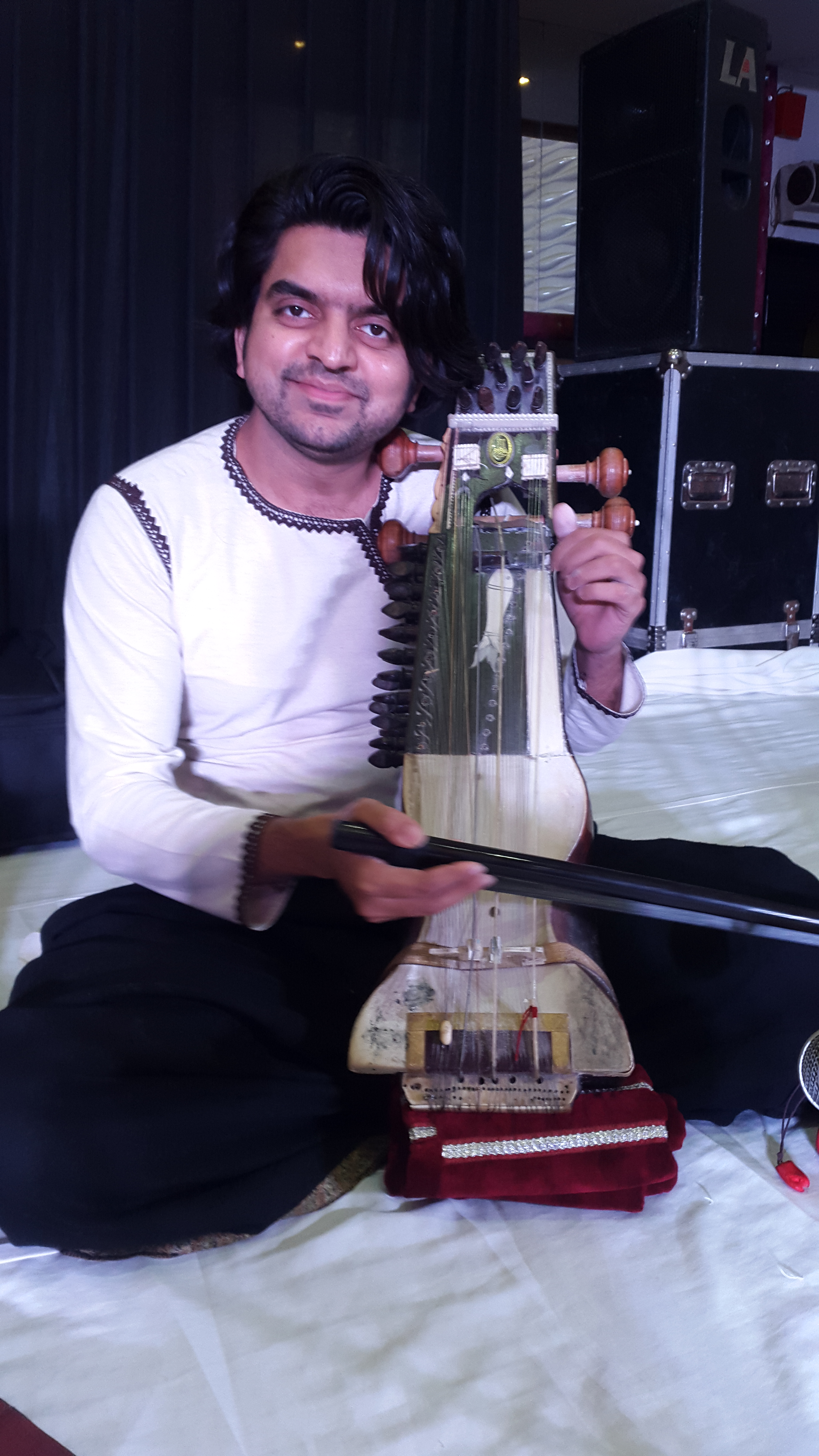 Playing During a show